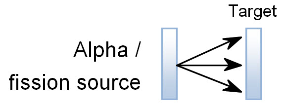 Wide angle irradiation with alpha particles or fission fragments. R. Spohr, (1990) Ion tracks and microtechnology, Vieweg Verlag